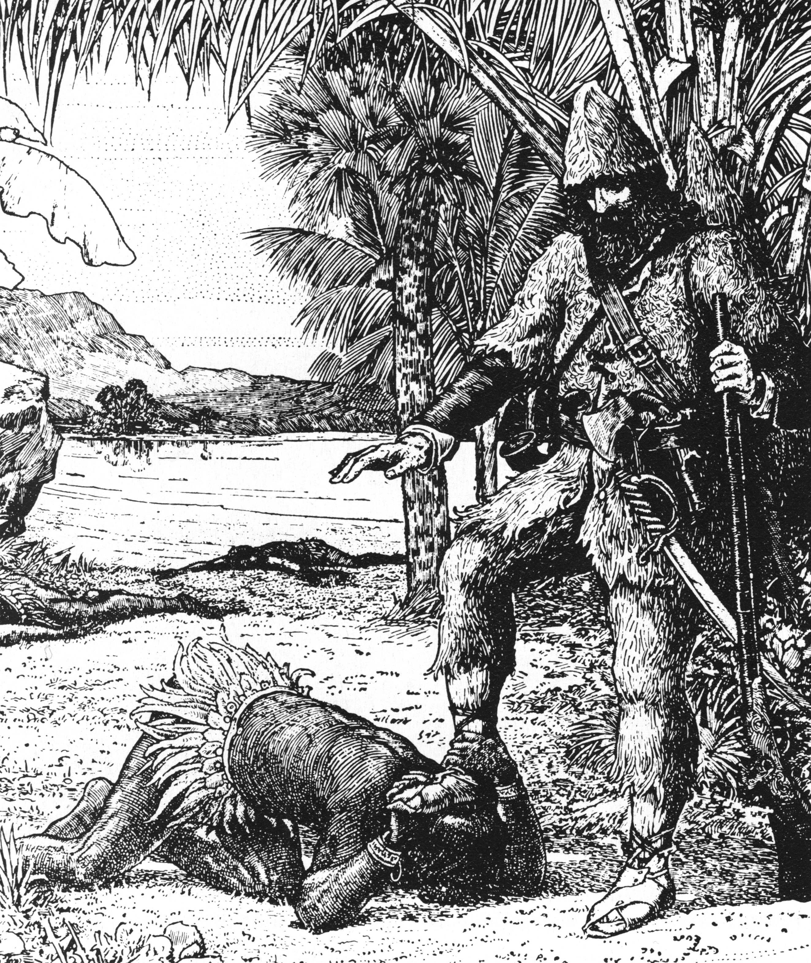 Robinson Crusoe meets Friday.